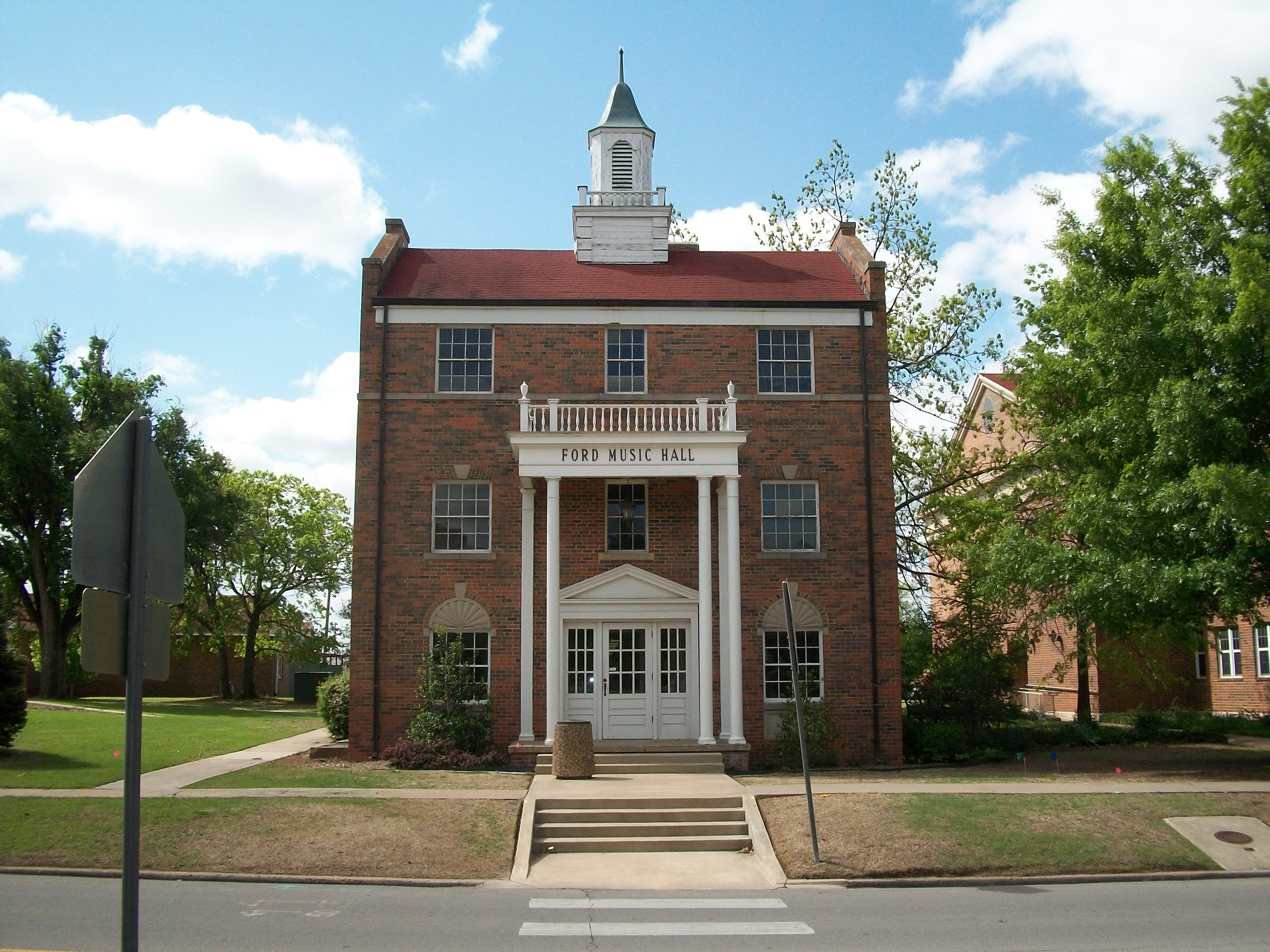 This is the Ford Music Hall on OBU campus